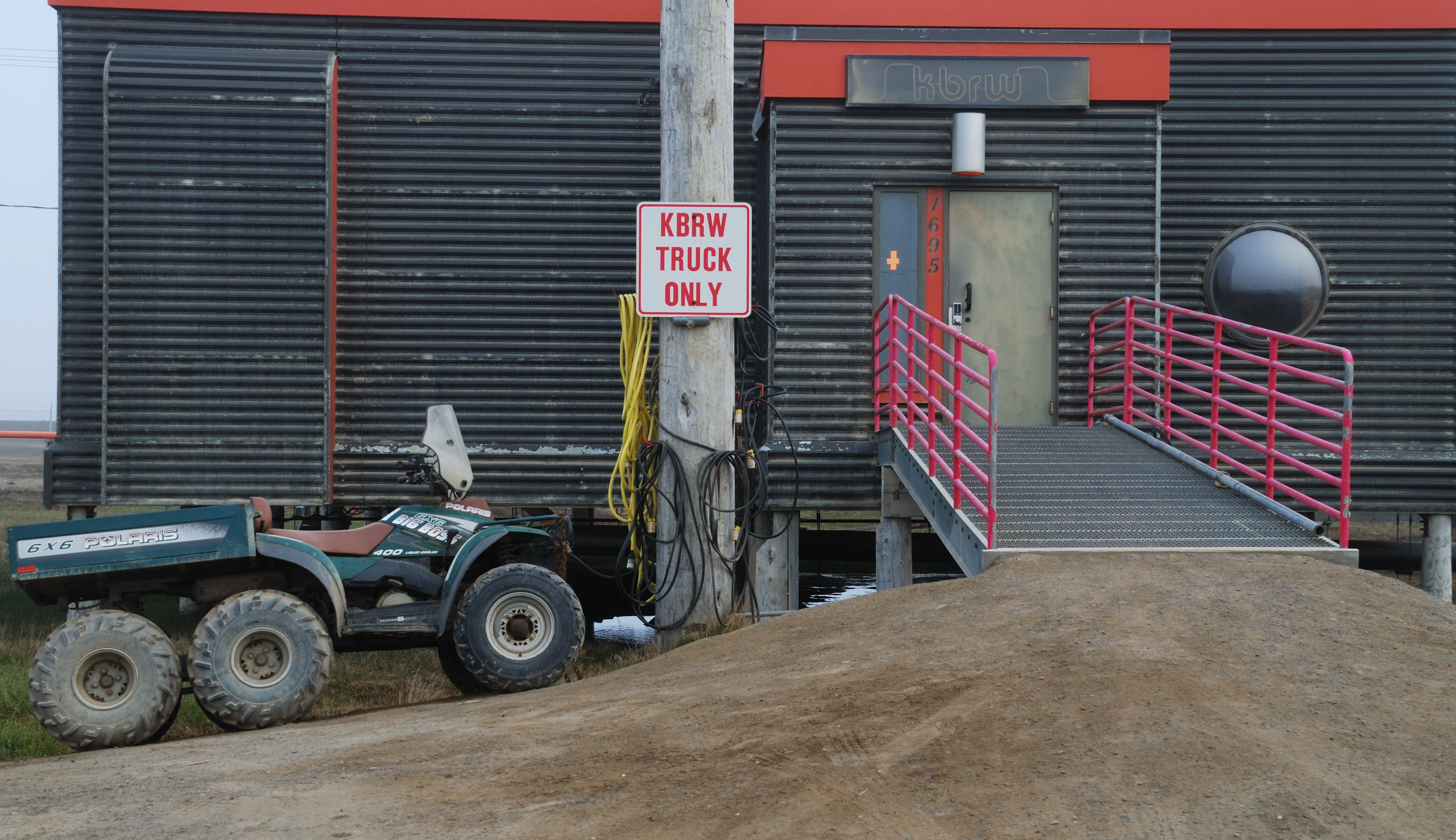 KBRW building with a 6-wheel ATV